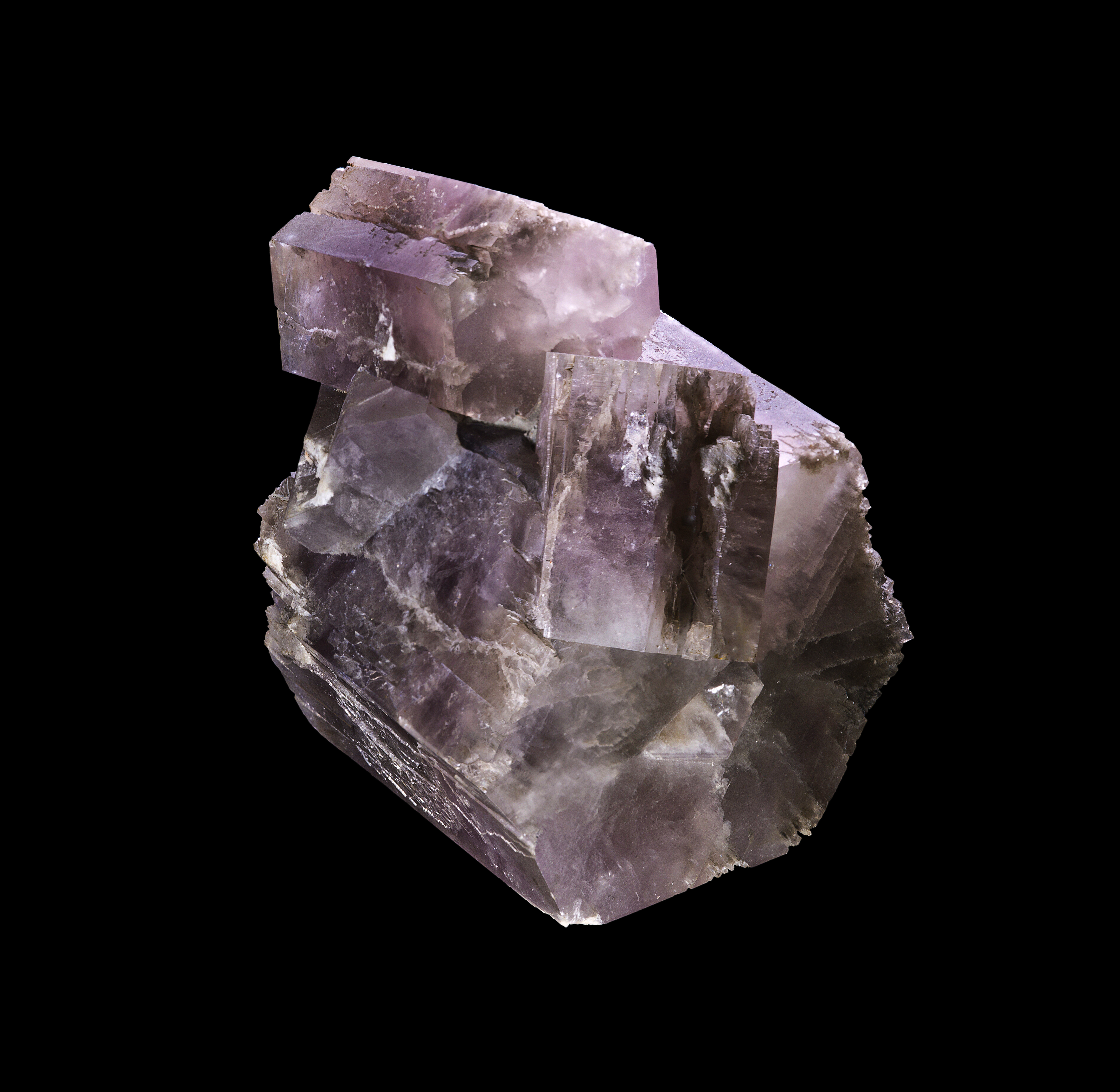 Aragonite locality : Retamal ravine, Enguidanos, Cuenca, Castile-La Mancha, Spain Size 7.6 x 6.1 x 5.7 cm